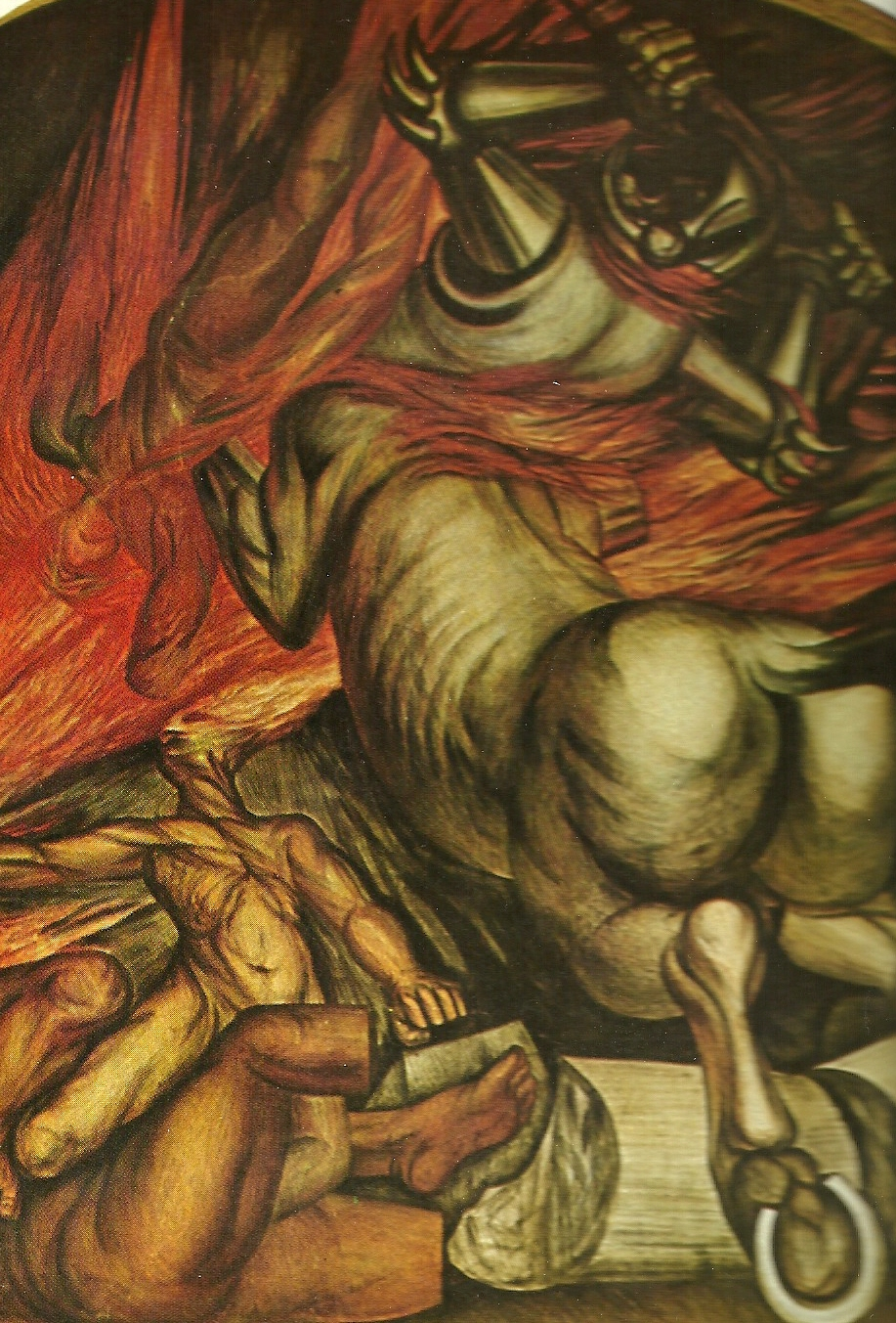 Cuernavaca murales